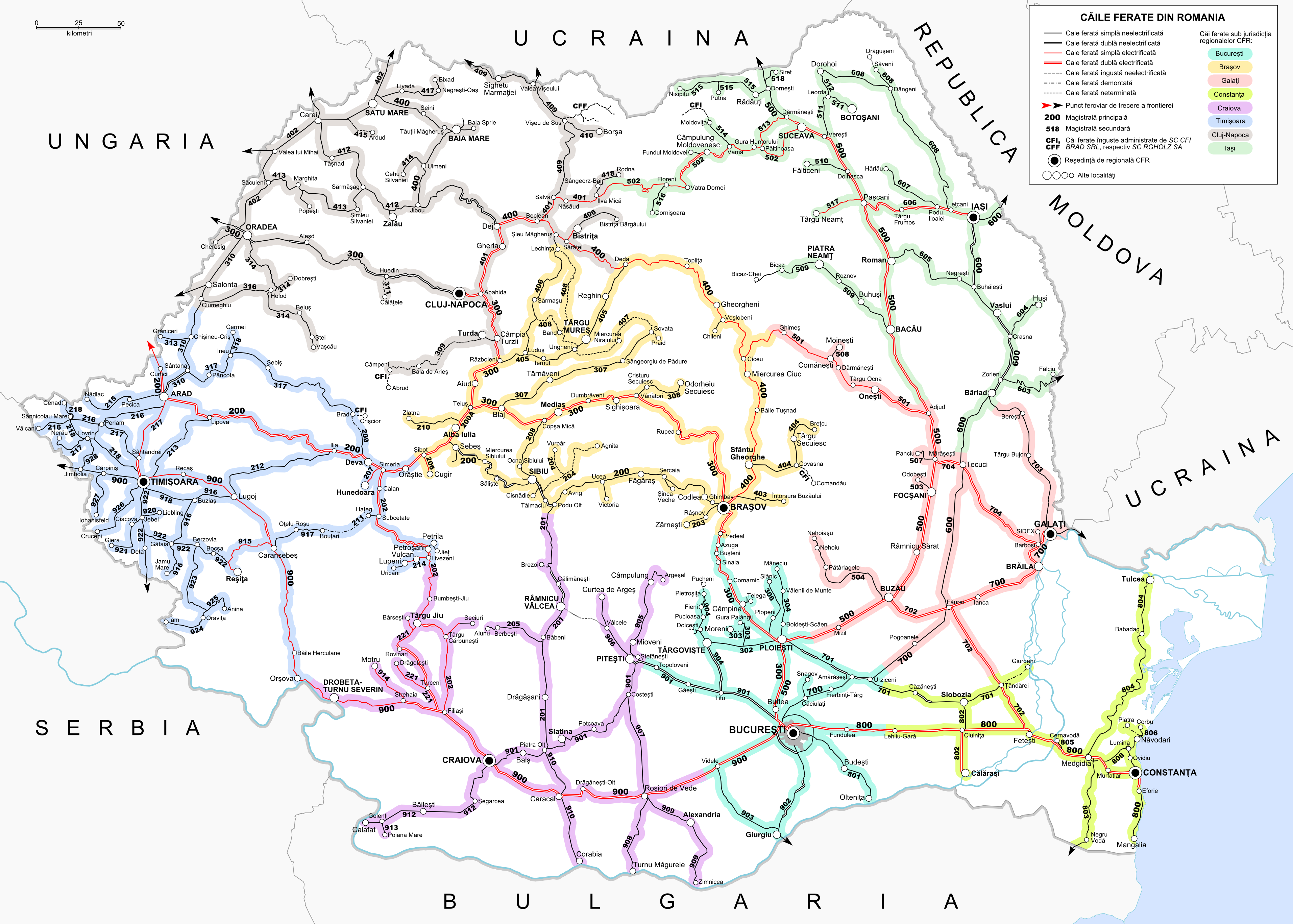 Rail network of Romania. Referinte/References: 1. 2. 3. 4.